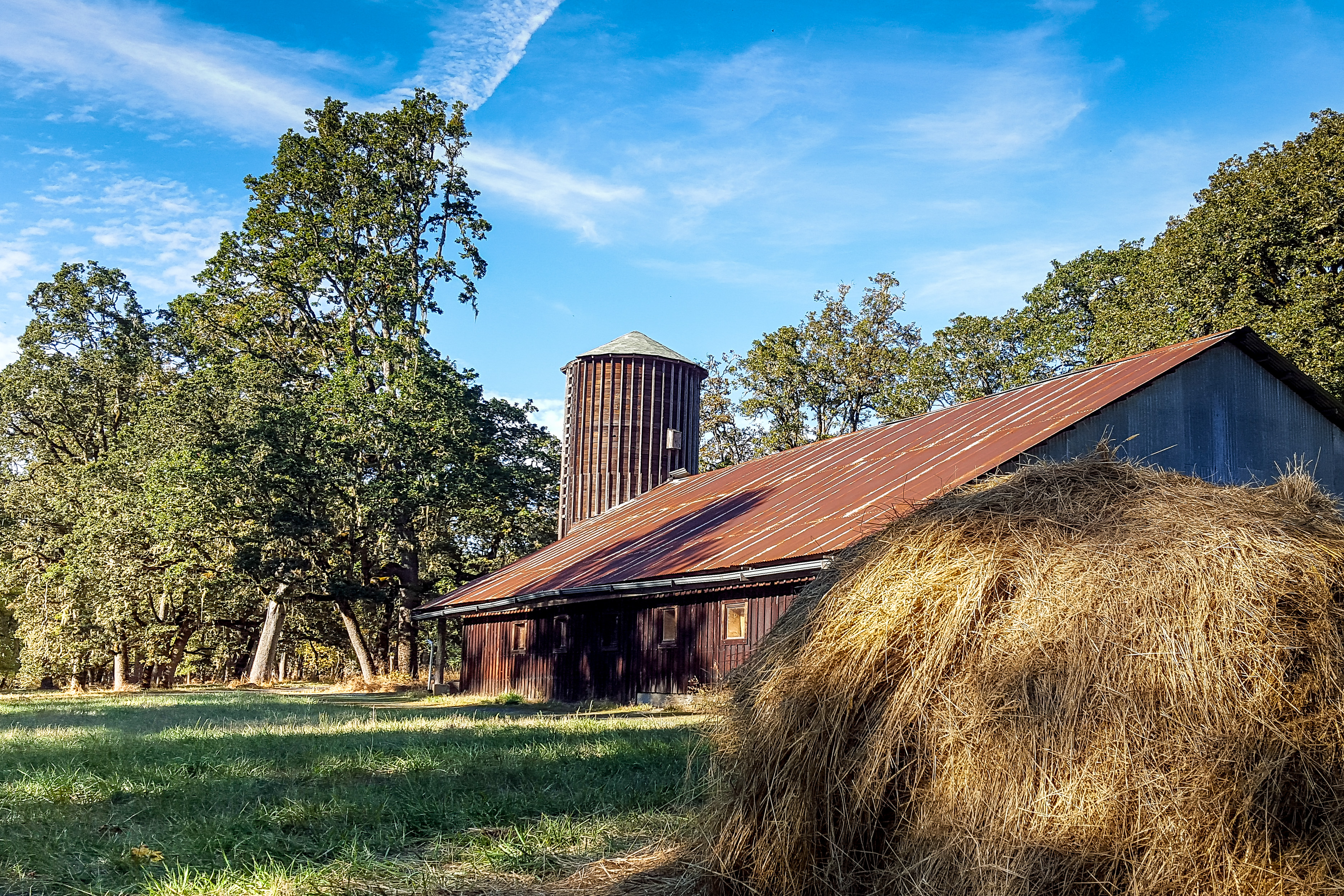 Red barn and haystack at Mt. Pisgah Arboretum, Eugene, Oregon